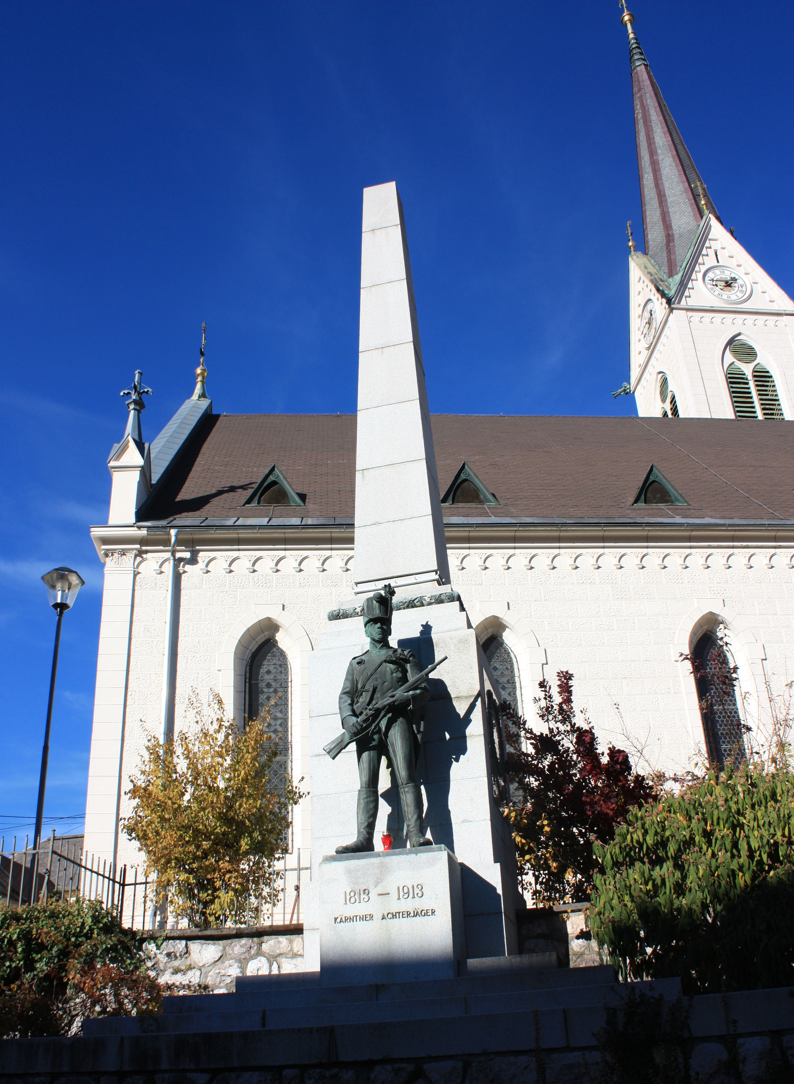 Parish church in the city Hermagor and war memorial